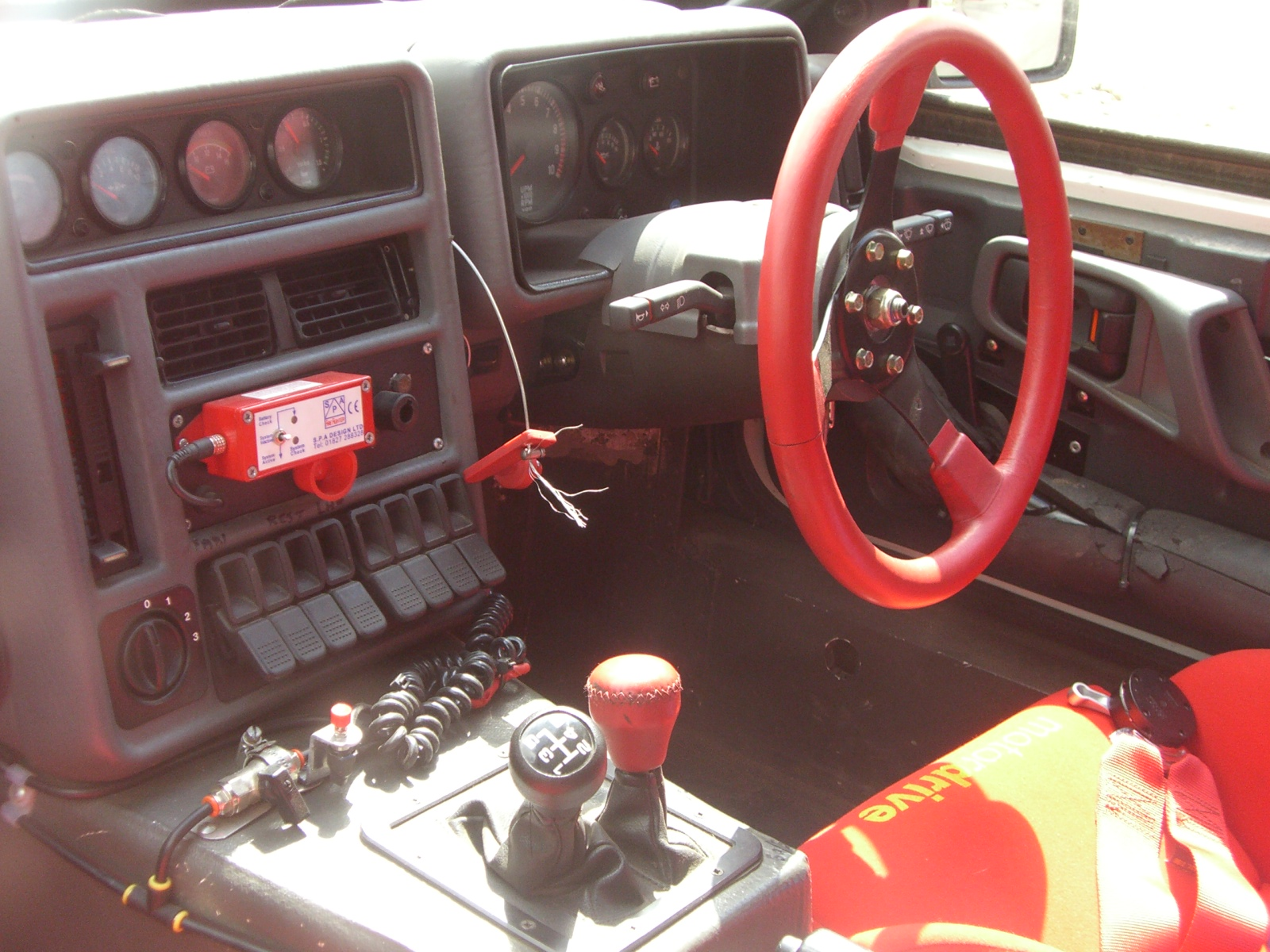 RS200 interior. Notice the two gearshifts. One for changing gears and one for changing betwwen drive modes.